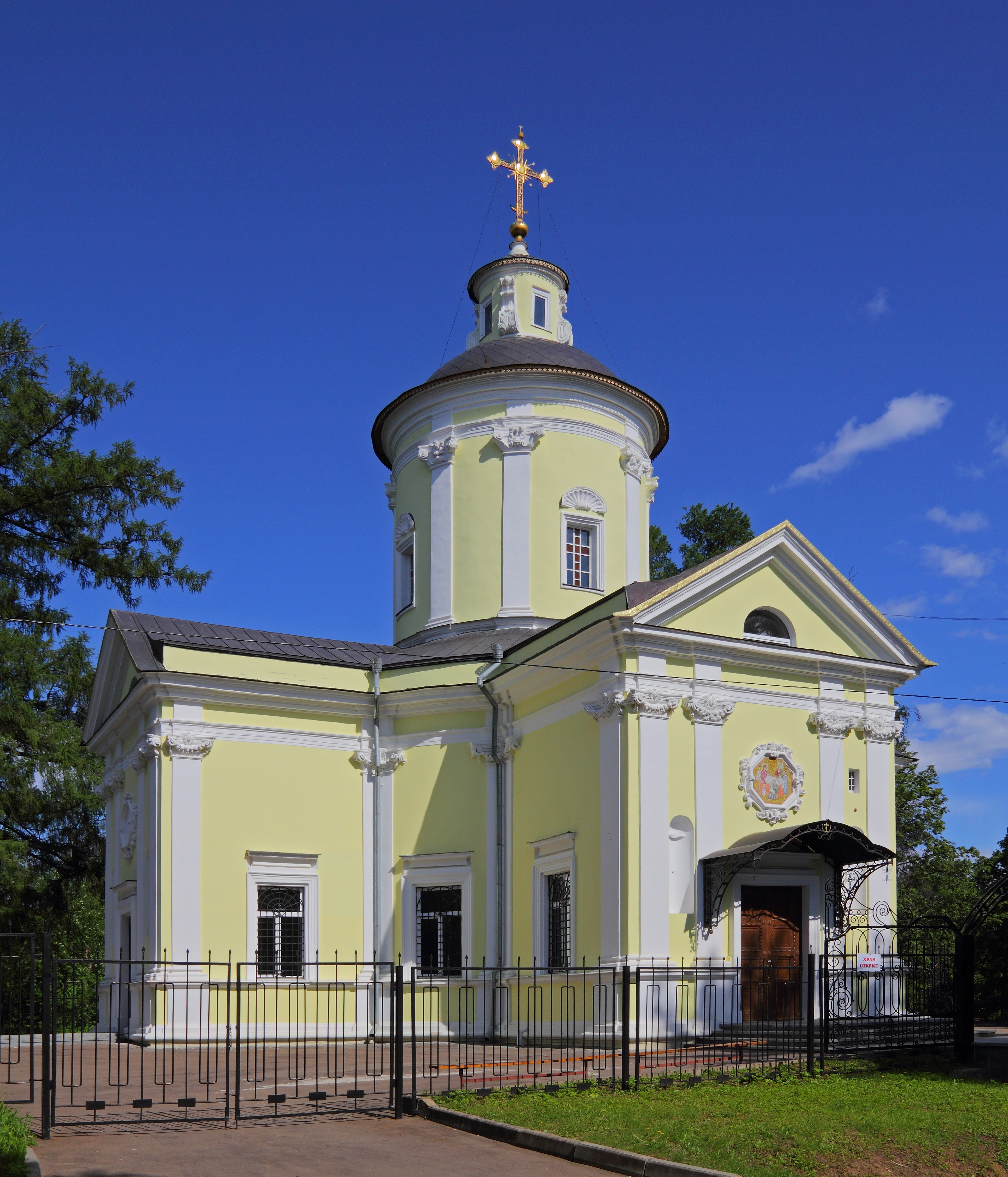 Mytischi District, Moscow Oblast, Russia. The ensemble of the former Marfino Estate. Church of the Nativity of Our Lady.